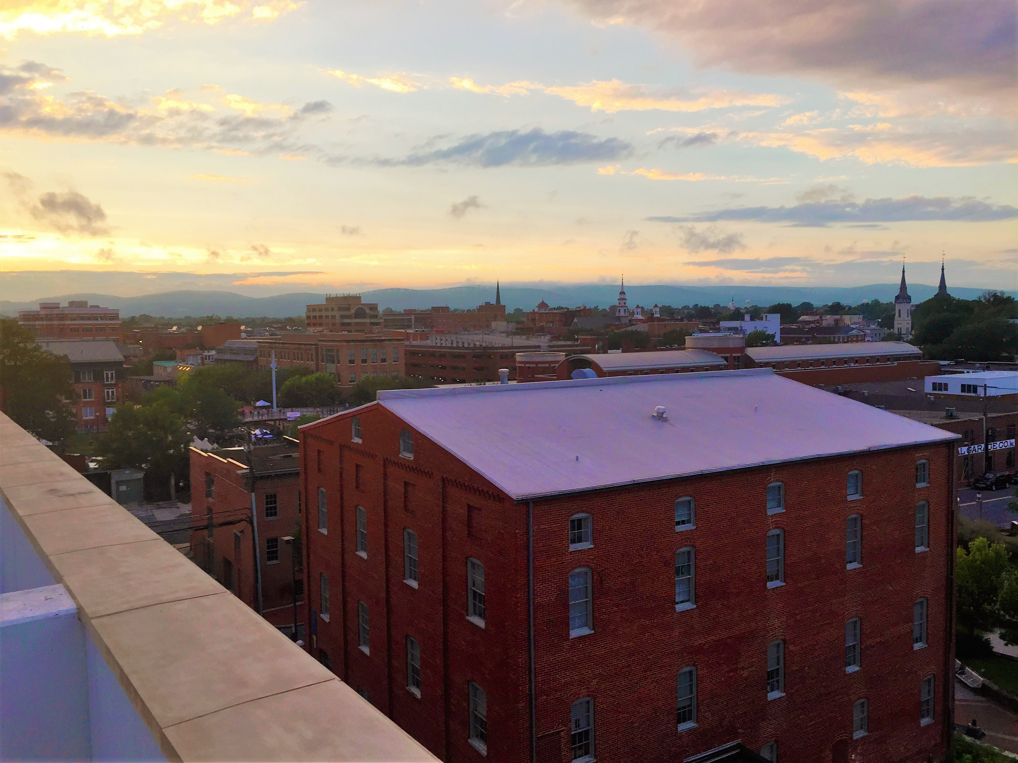 Downtown Frederick